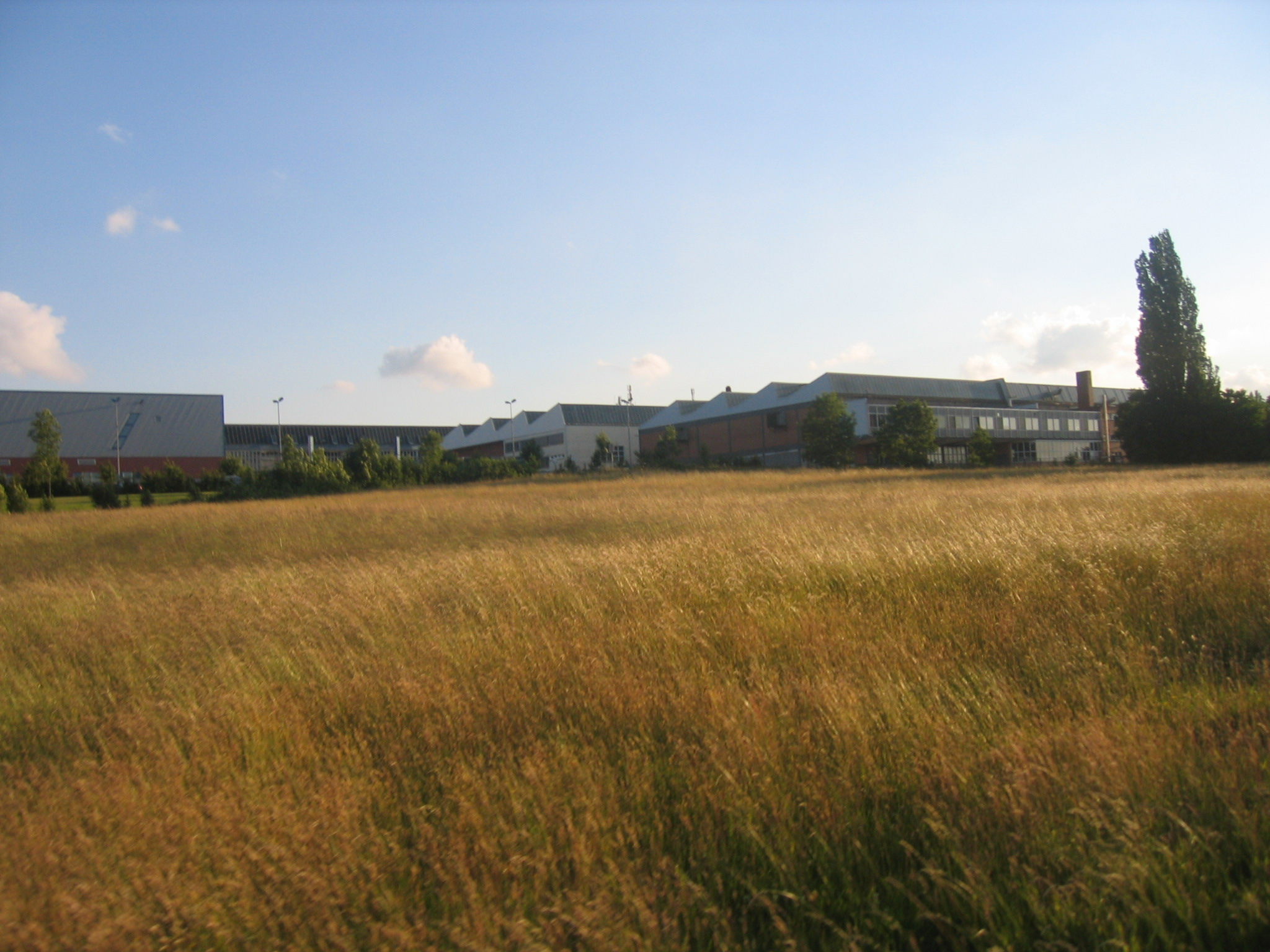 Bünder Glass GmbH in Bünde, District of Herford, North Rhine-Westphalia, Germany.